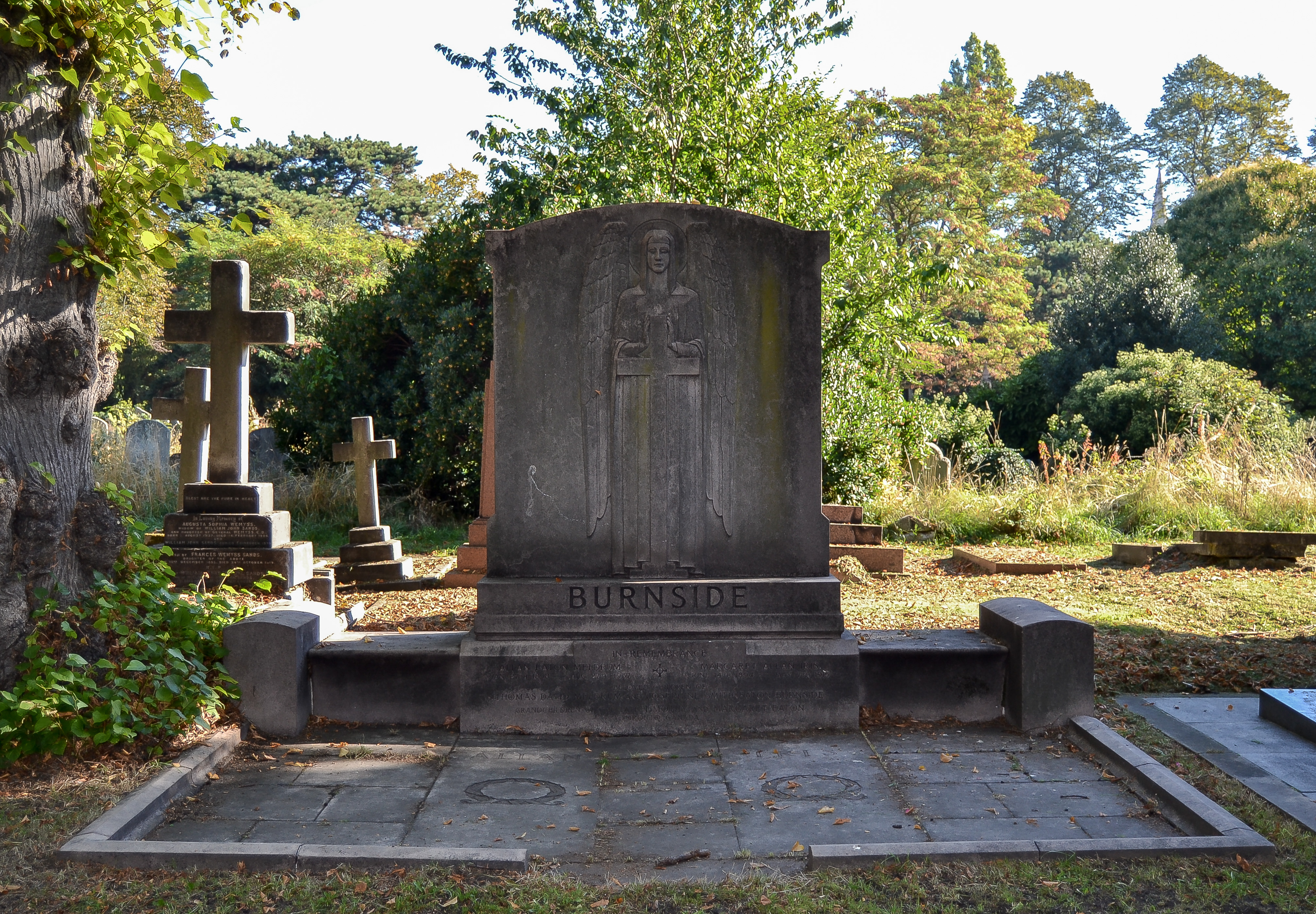 Burnside Monument, Brompton Cemetery Wikidata has entry Q27087568 with data related to this item.